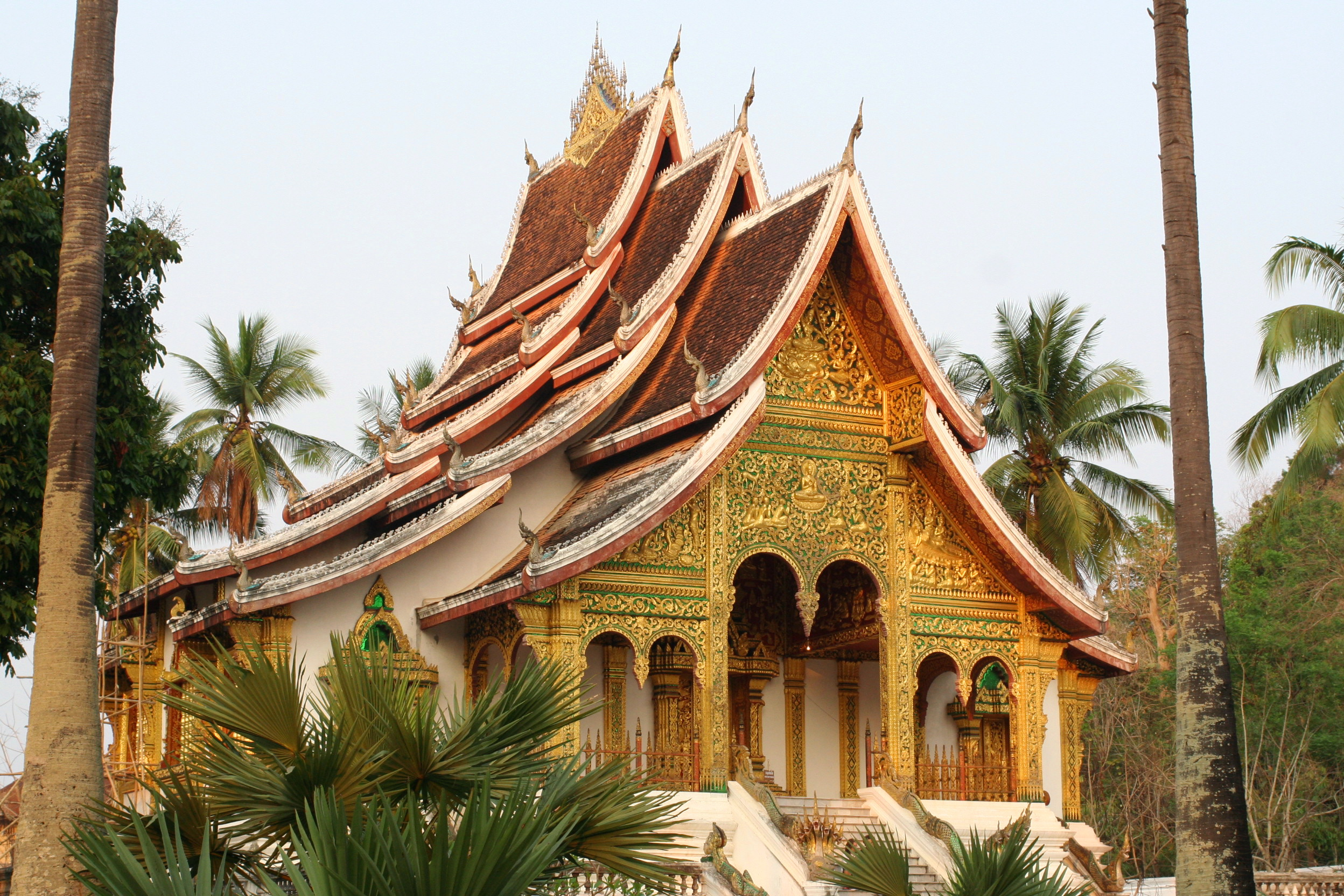 Royal Palace Museum, Louang Phabang